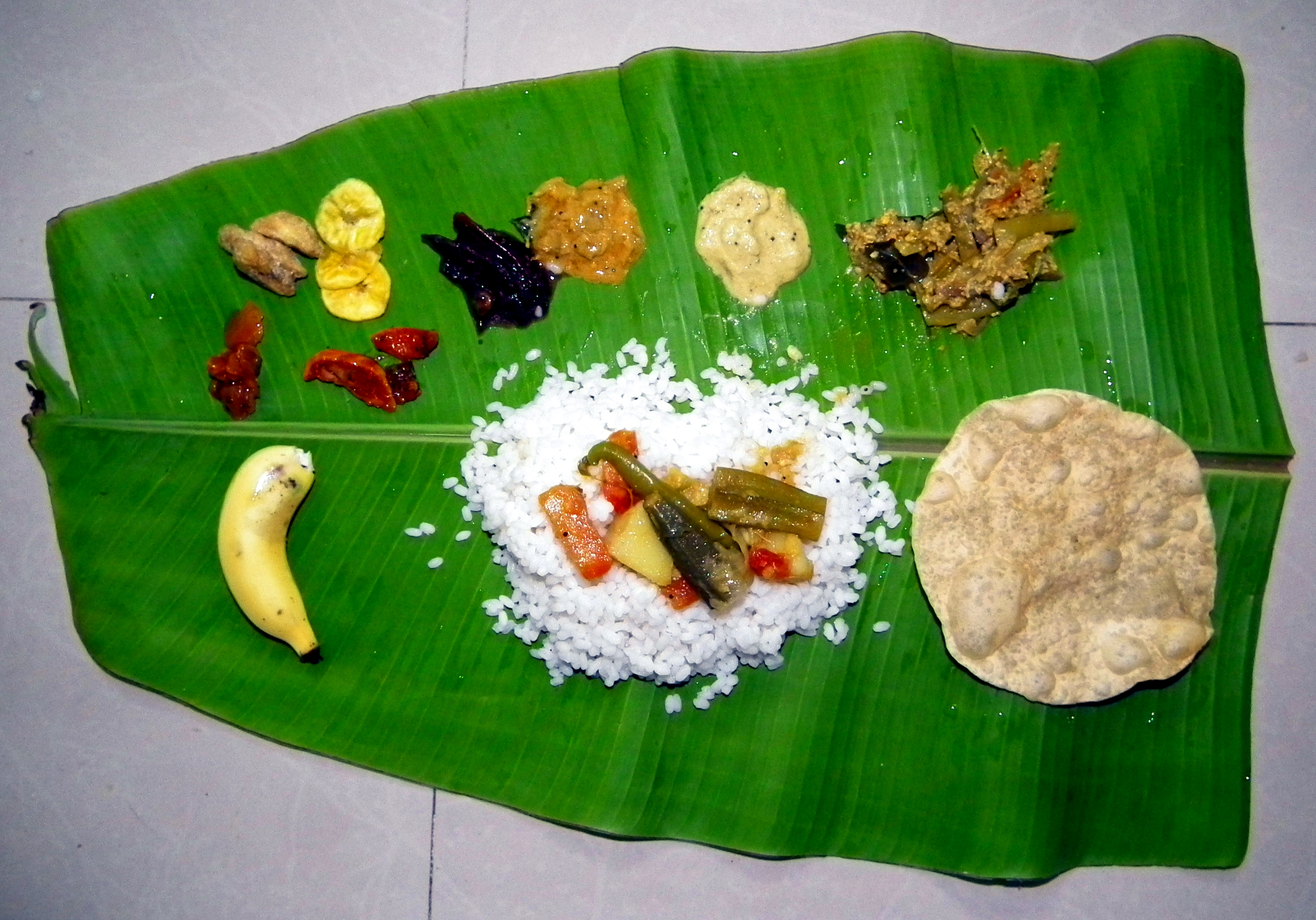 The Onasadya at Bangalore at Onam 2011. The most important activity of during the 10th Day of Onam "Thiruvonam" is the grand Thiruona-Sadya, well known for being one of the most sumptuous feasts ever prepared by mankind. The level of sumptuous varies at each individual household, however every household tries to make as grand as possible as they can. The feast served on plantain leaves have more than 13 to 15 curries apart from other regular items.